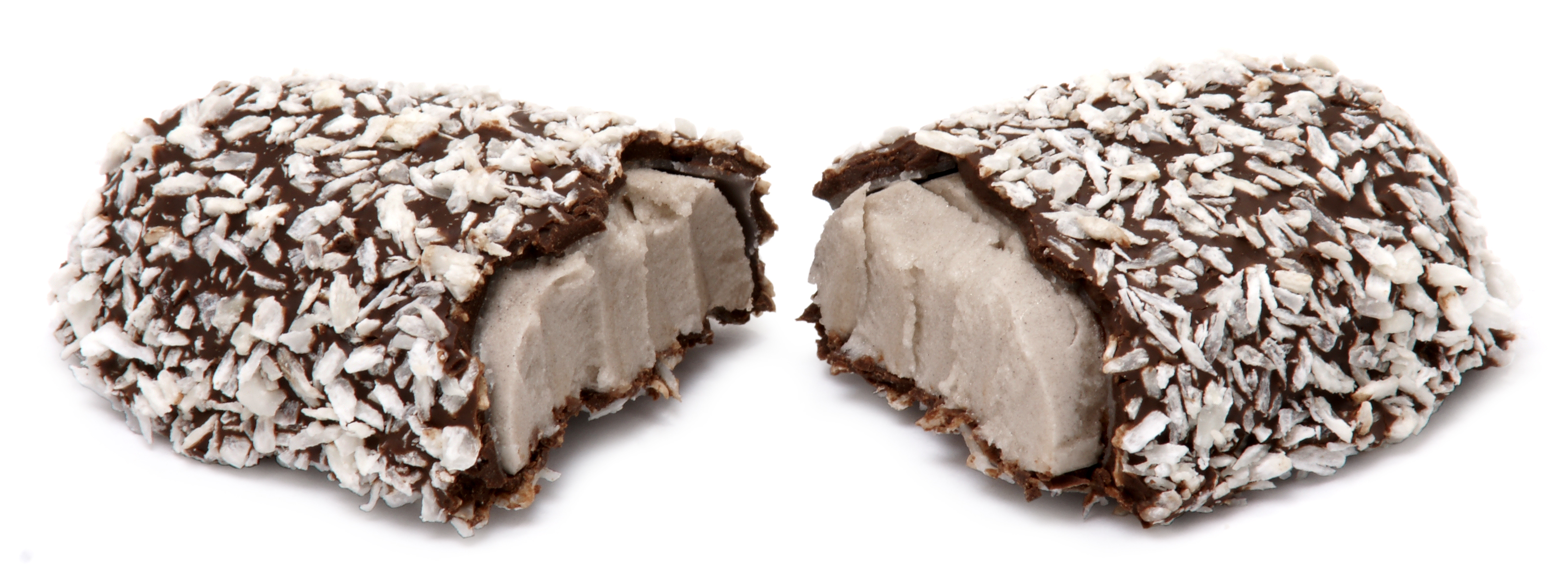 An Idaho Spud candy bar, split in half. Made by the Idaho Candy Company.